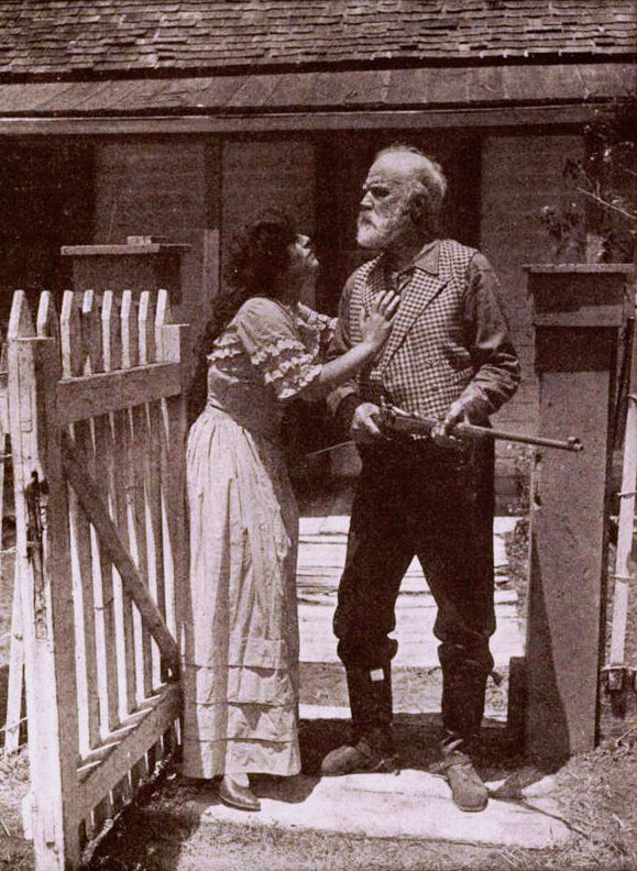 Still from the American film Salomy Jane (1914) with Beatriz Michelena and Matt B. Snyder, facing page 142 of the 1915 edition of the Bret Harte novel. Caption: "You just lie low, Dad, for a day or two."